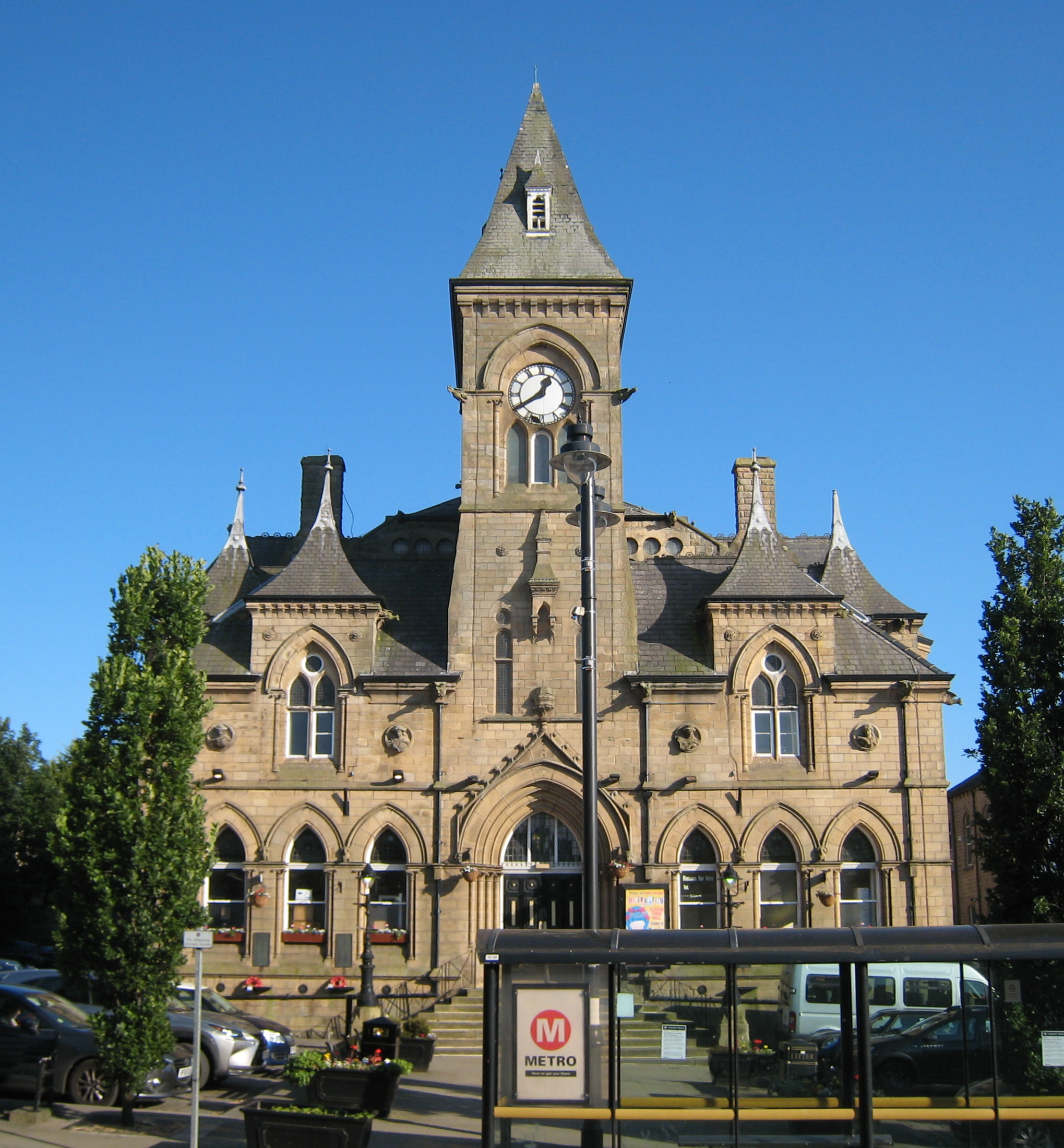 Yeadon Town Hall, viewed from the High Street. Front, North face.